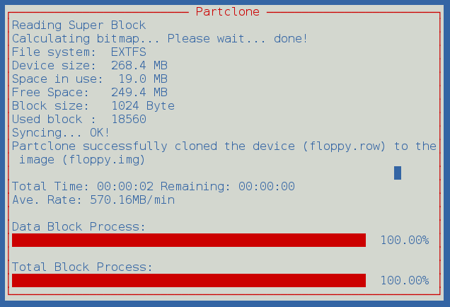 the screenshot of partclone running on clonezilla.